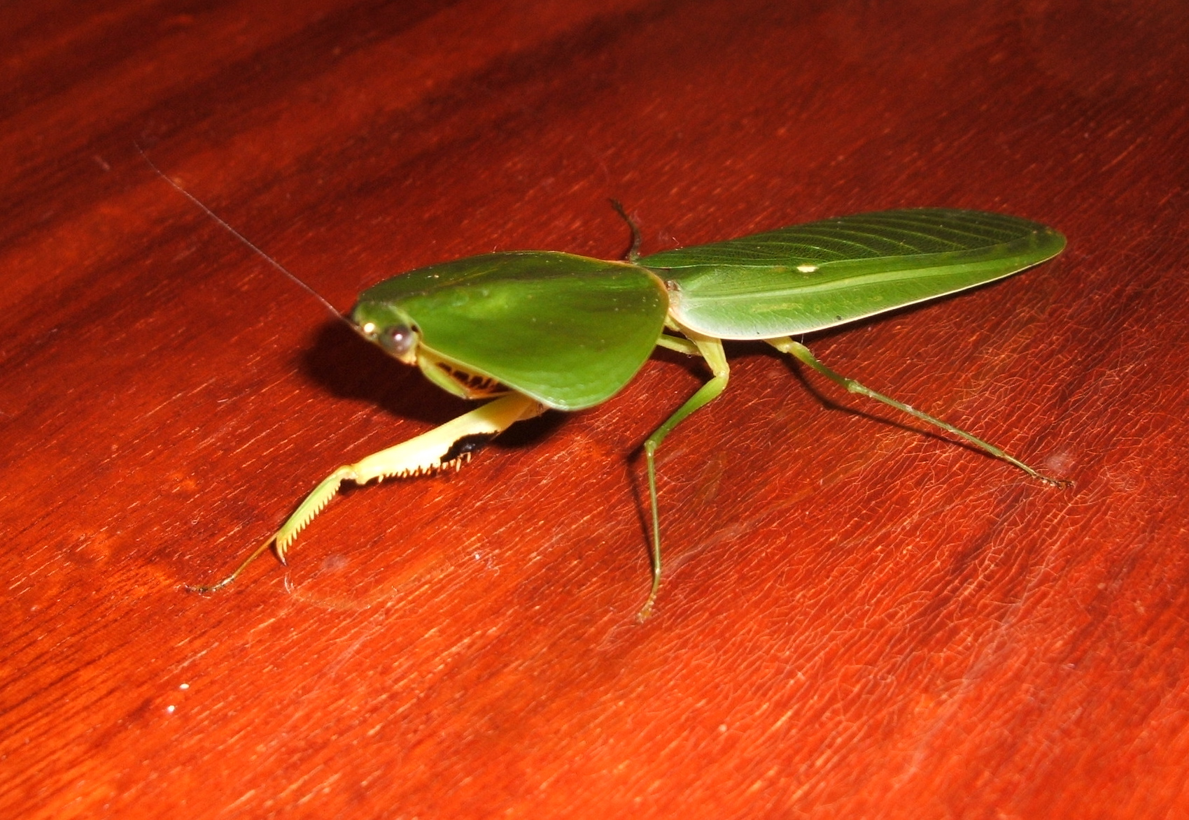 Hooded praying mantis (genus Choeradodis) in Osa Peninsula, Costa Rica. (This specimen was spotted in the bathroom of our hotel.)